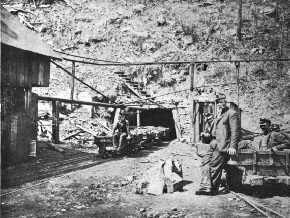 Entrance to one of the Battle Creek Mines at Orme, Tennessee, United States, photographed in the early 1910s.